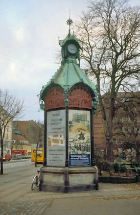 Telephone kiosk, designed 1895 by Fritz Koch. Location: Jagtvej 226, Østerbro, Copenhagen. Listed 1994.